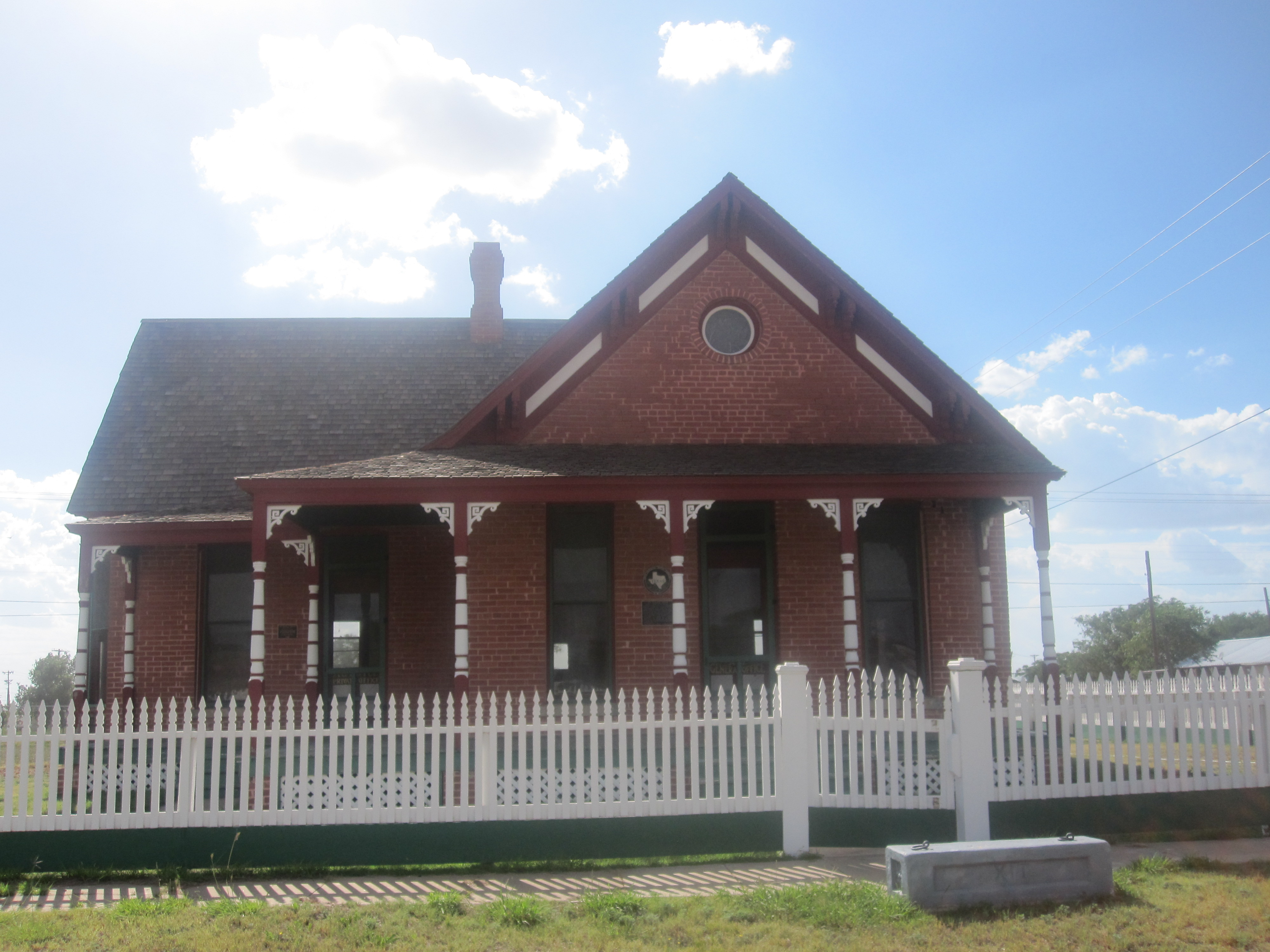 I took photo with Canon camera in Channing, TX.